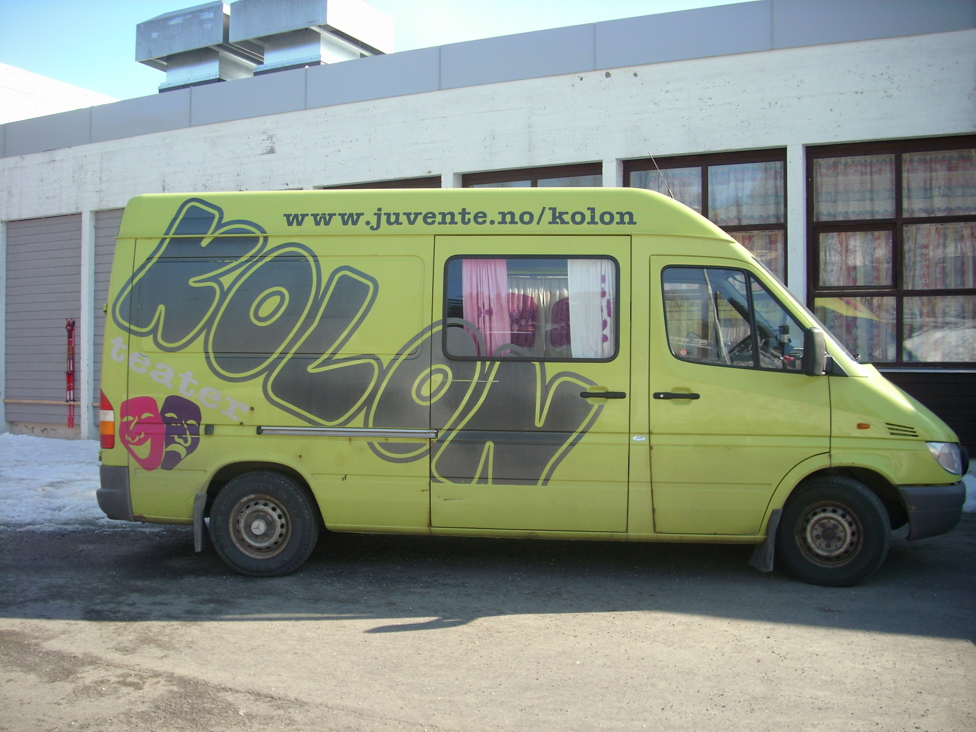 KOLON theatre's bus.